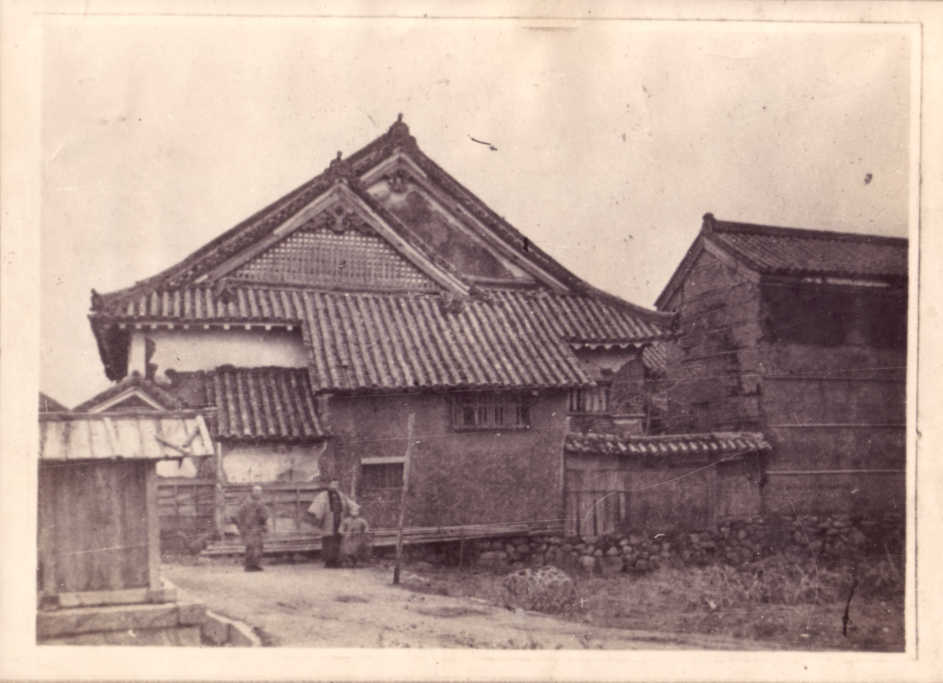 Imanishi family's House of Taisho Period